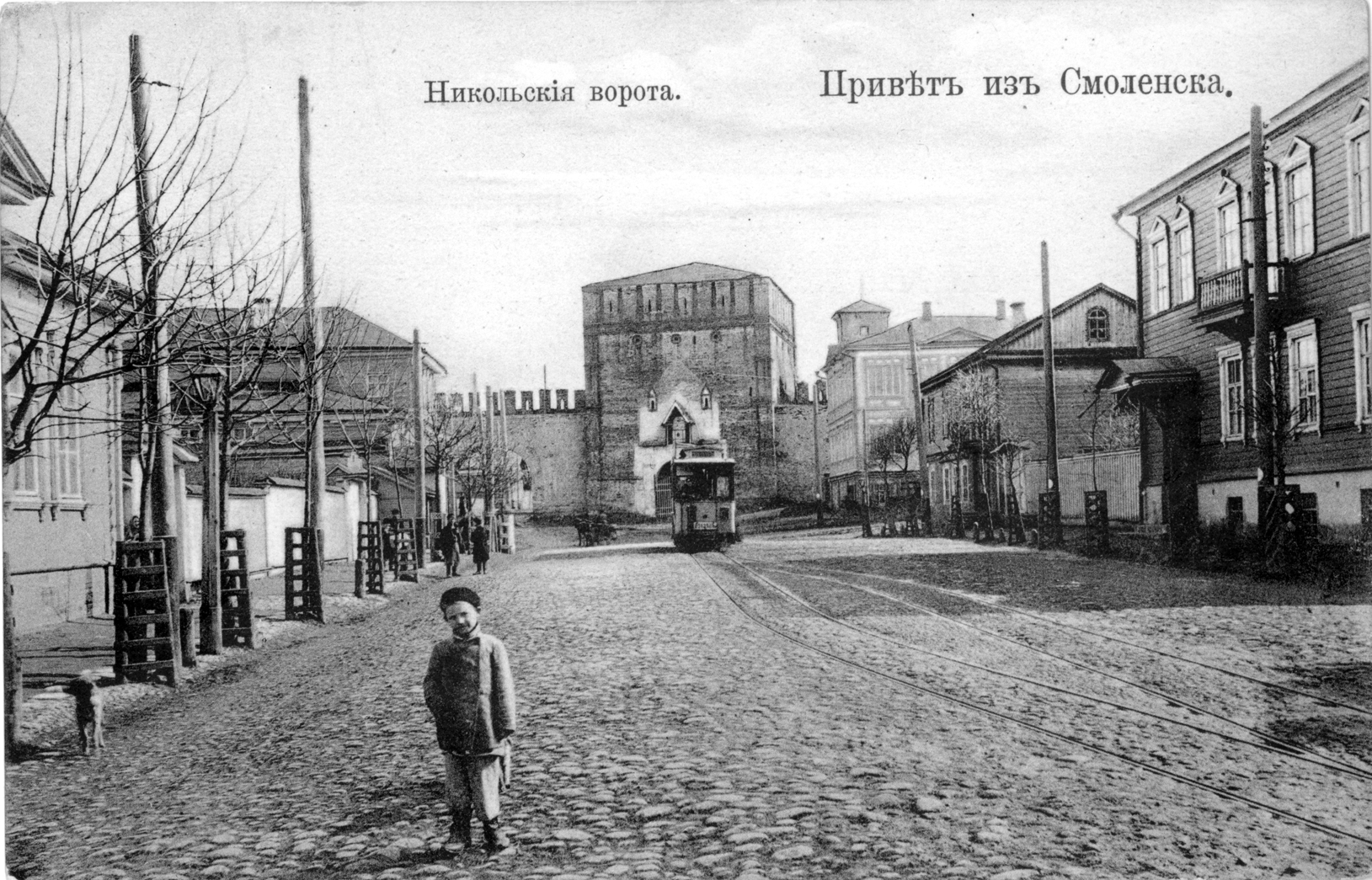 View of the Nikolsky gate of the Smolensk fortress wall.